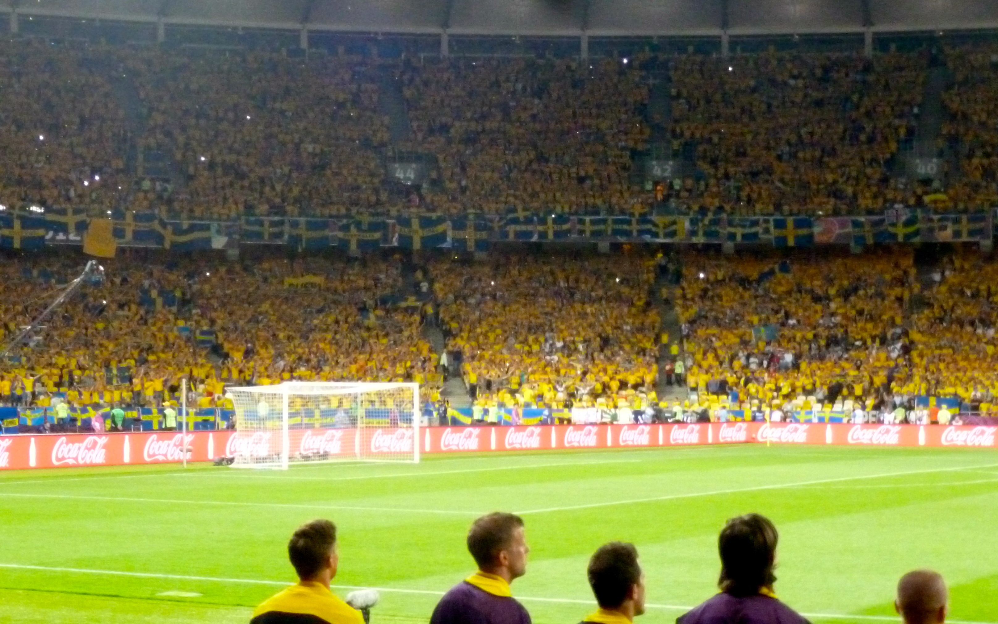 Swedish fans during the UEFA Euro 2012.